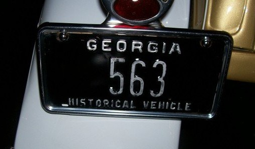 (John Bird, self-taken, 2006)